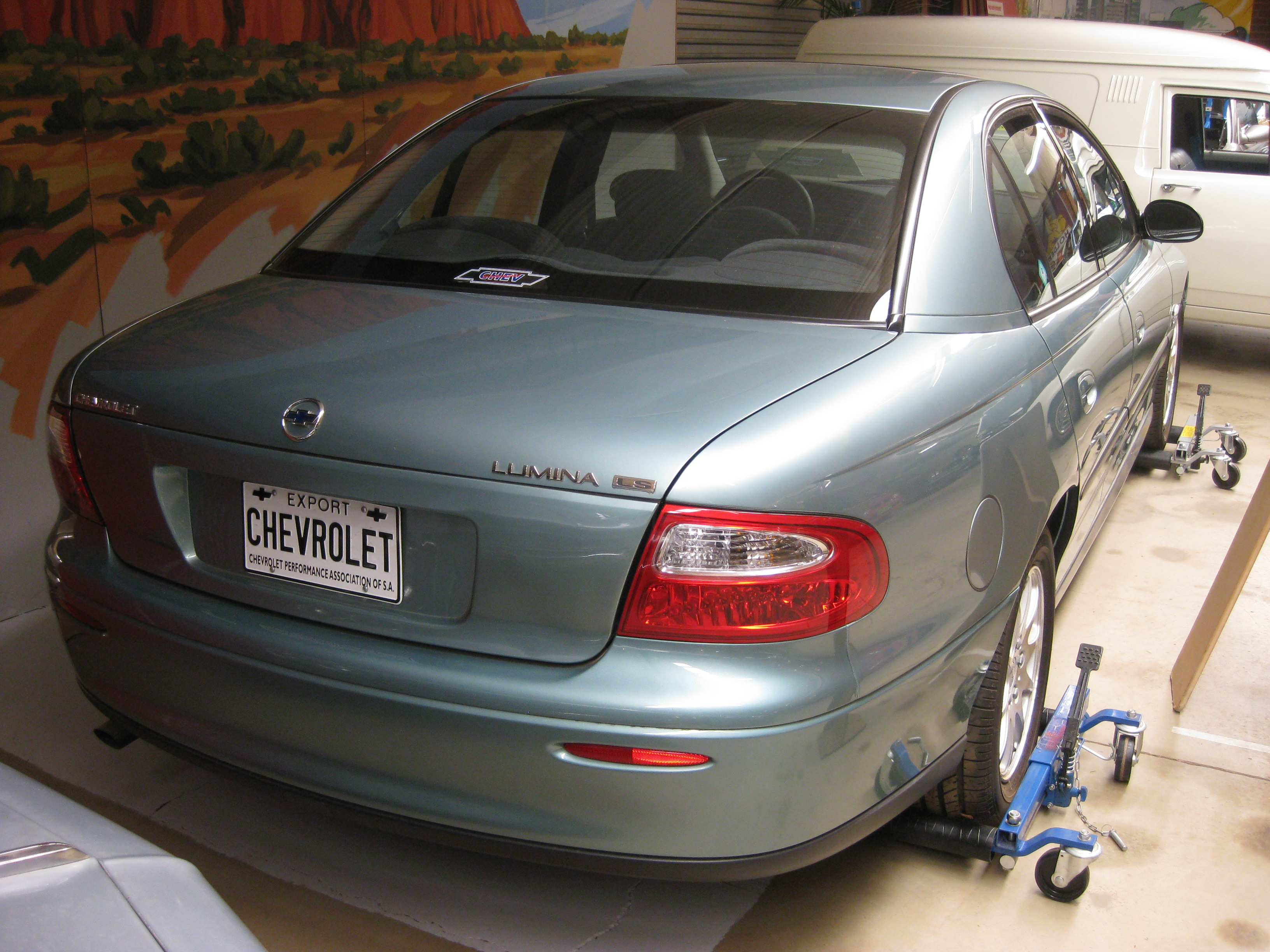 Chevrolet Lumina LS - Built by Holden in Australia in 2000. Based on the Holden VX Commodore as a pilot for the Chevrolet Lumina LS export model.